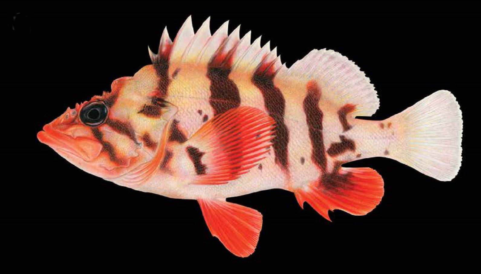 Tiger rockfish, Sebastes nigrocinctus, image by Joseph R. Tomelleri